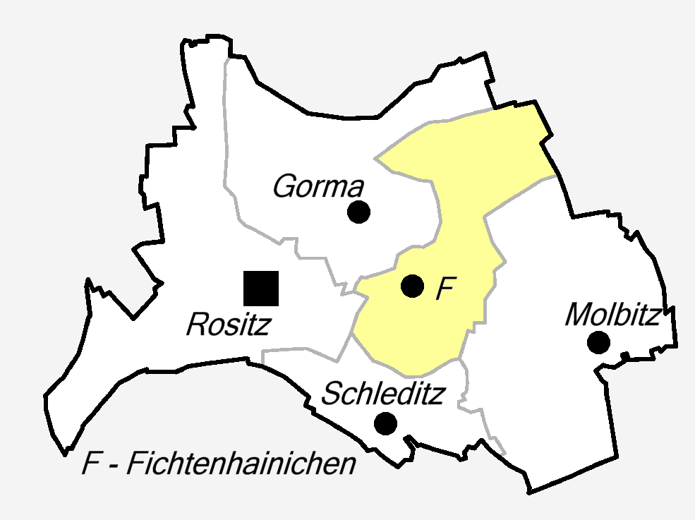 District-Maps of Fichtenhainichen in Rositz village.